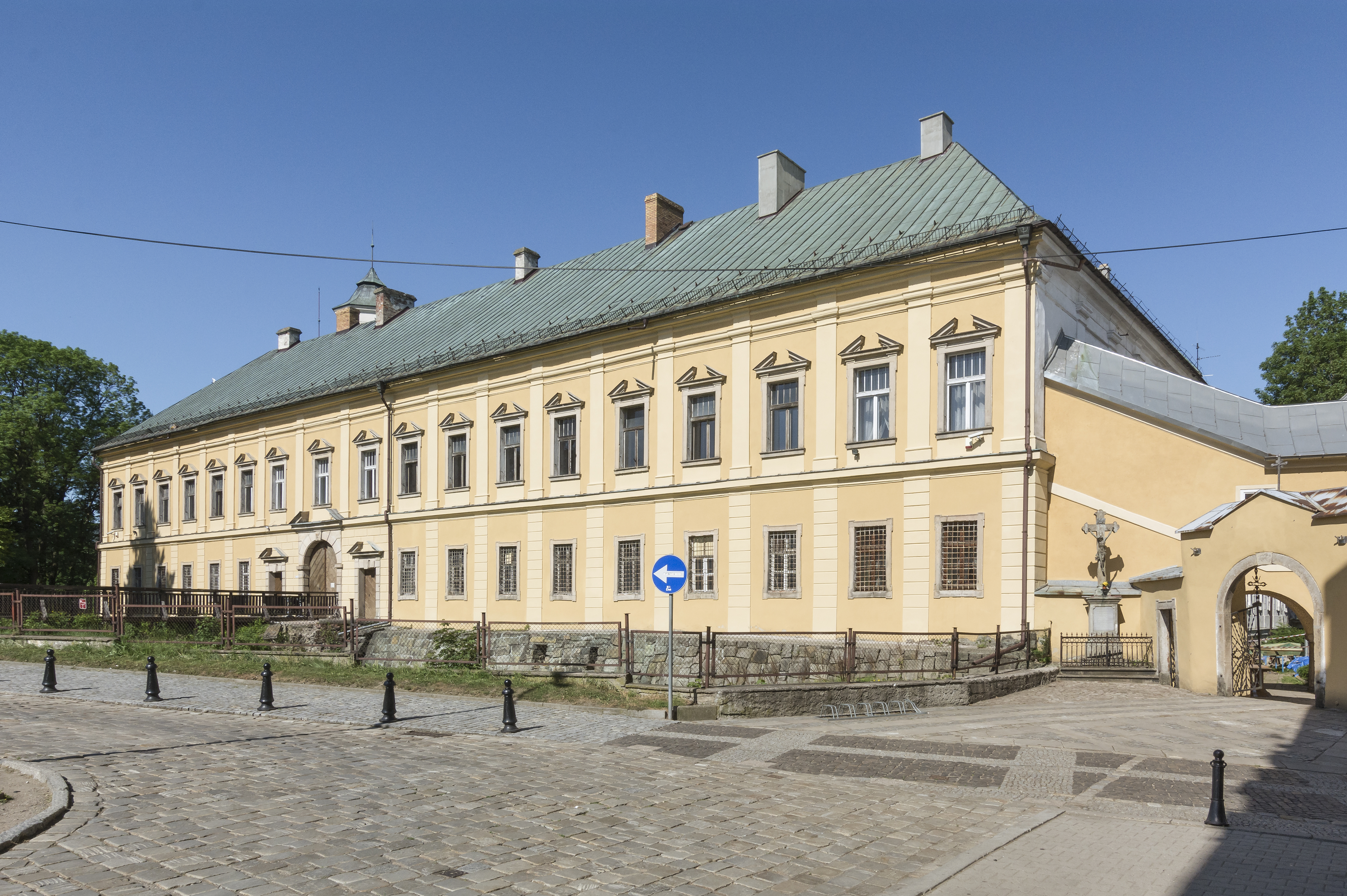 Międzylesie Castle